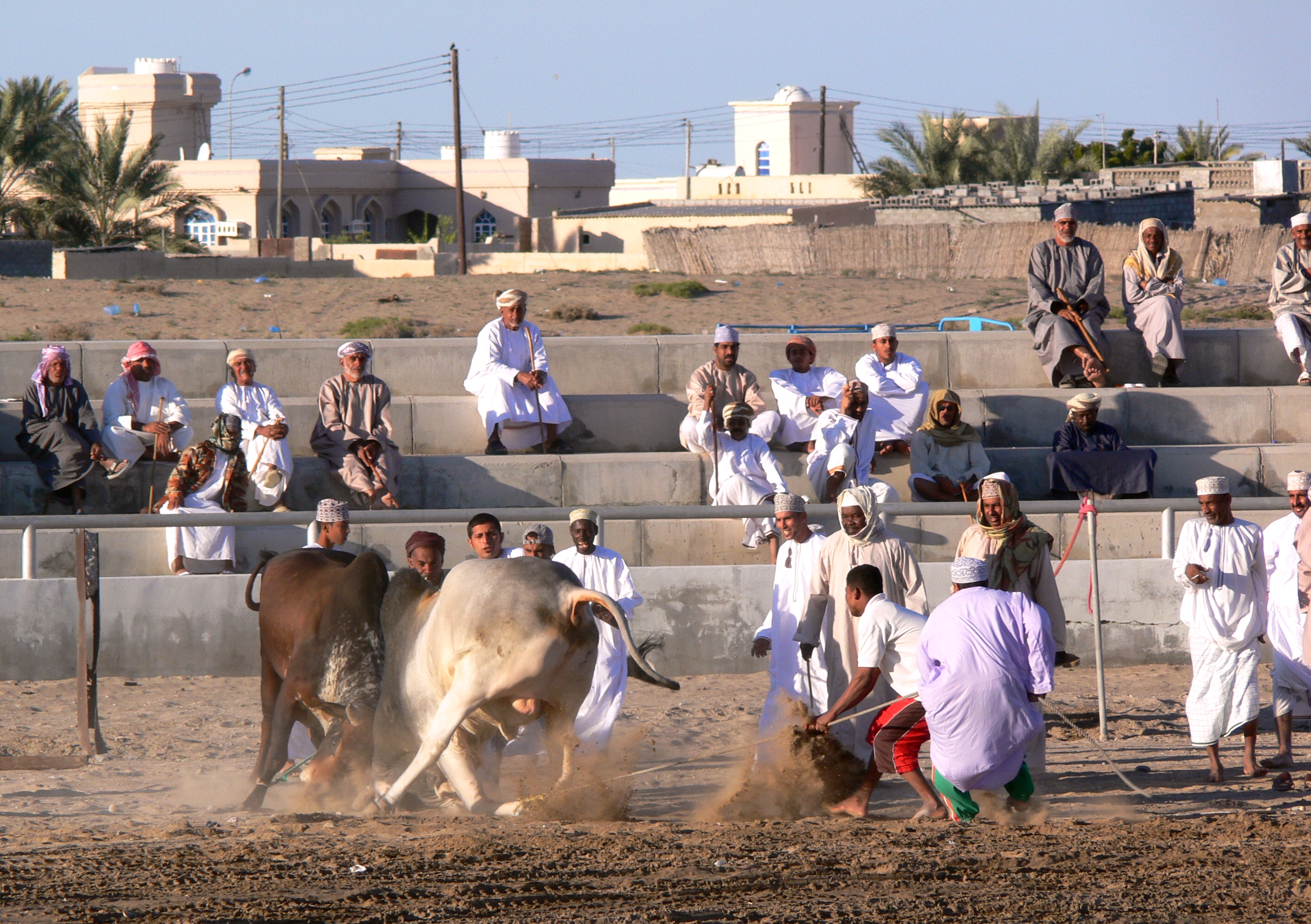 Barka (Oman). Bullfight action - P1050479.JPG